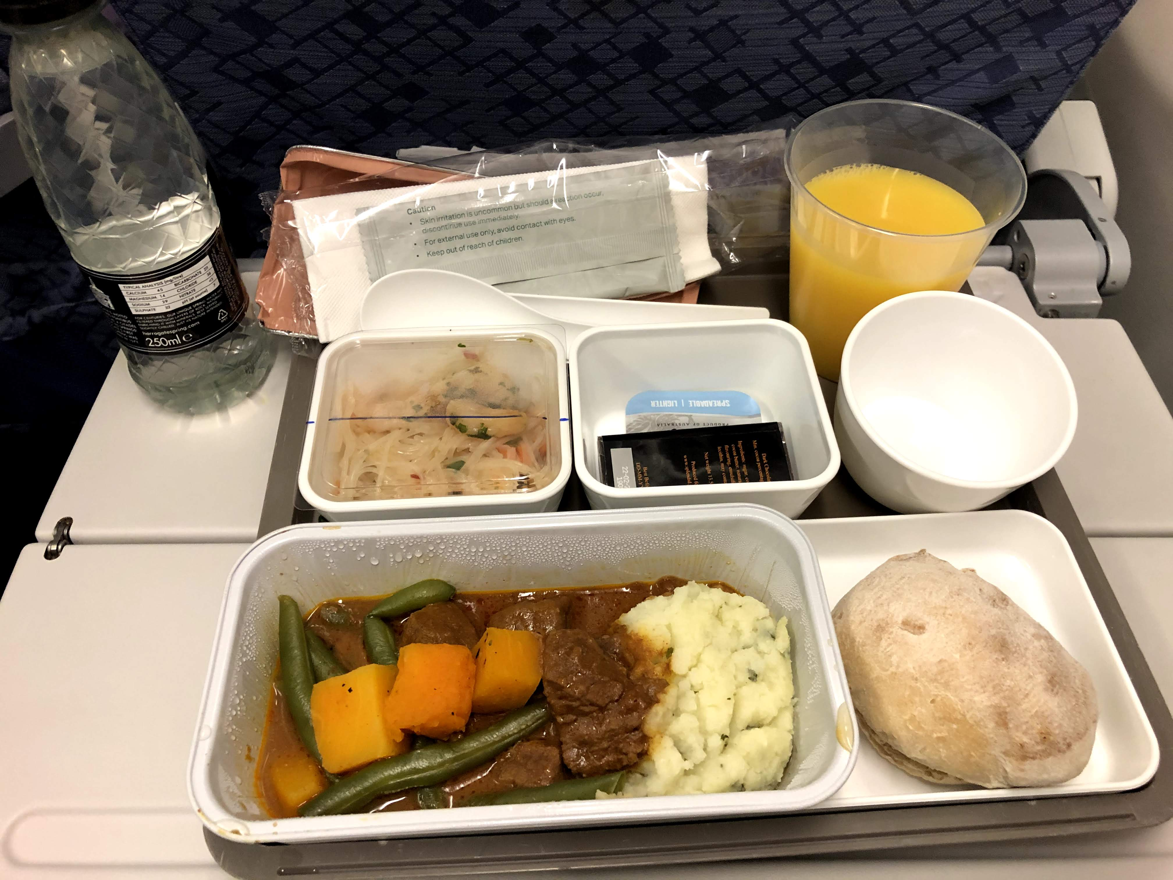 Lunch on CX150 from Brisbane to Hong Kong